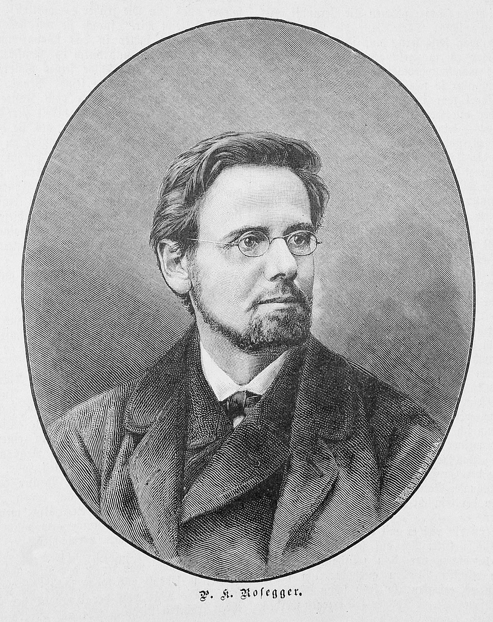 caption: "P. K. Rosegger."